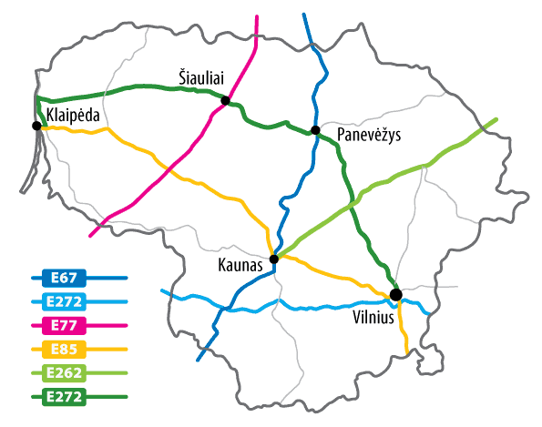 Lithuania-roads-(European roads)